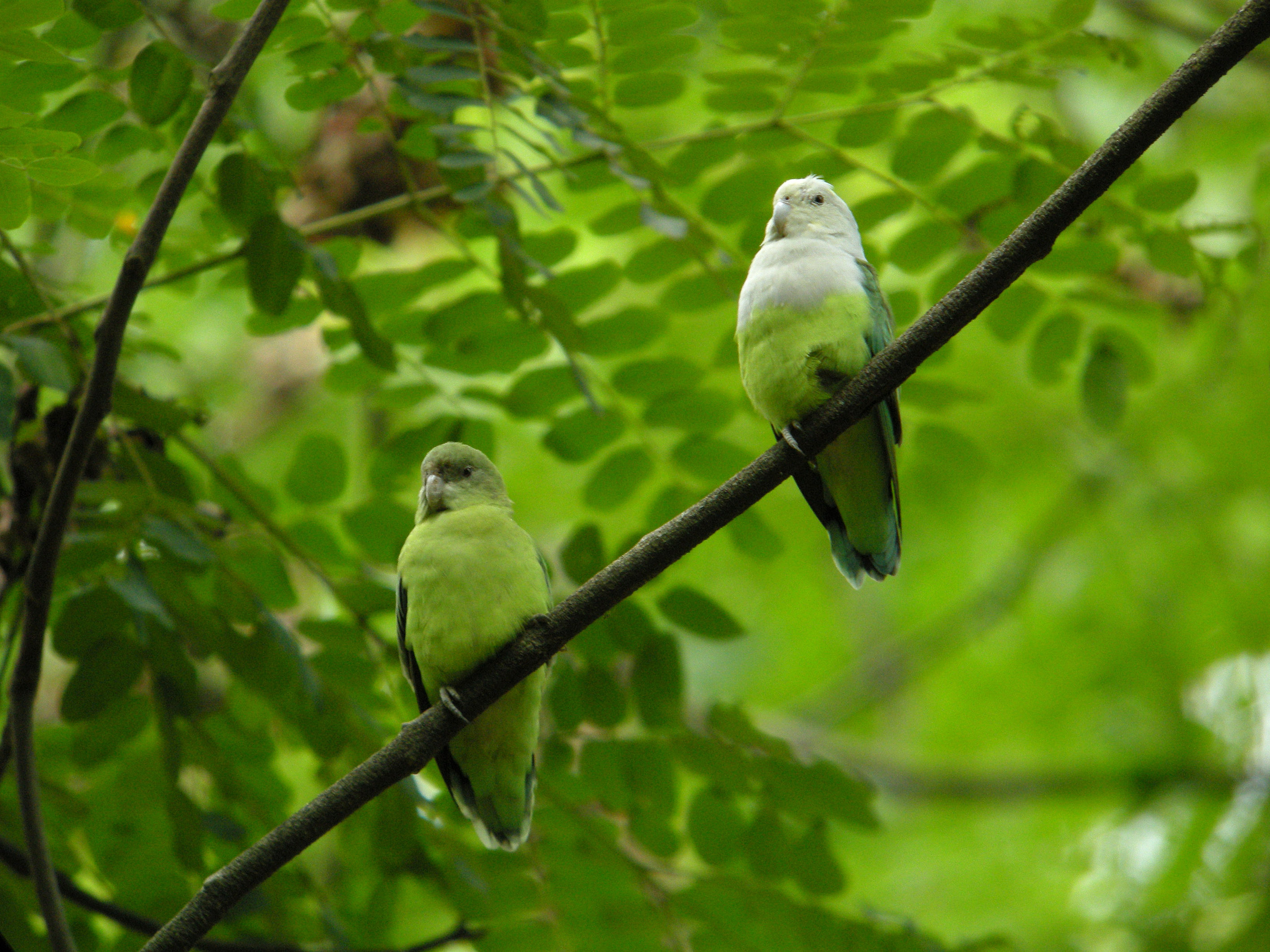 Grey-headed Lovebird, Ankarafantsika, Madagascar Swarowski 80 HD 30 X, Coolpix P5100 (Adapter DCB)